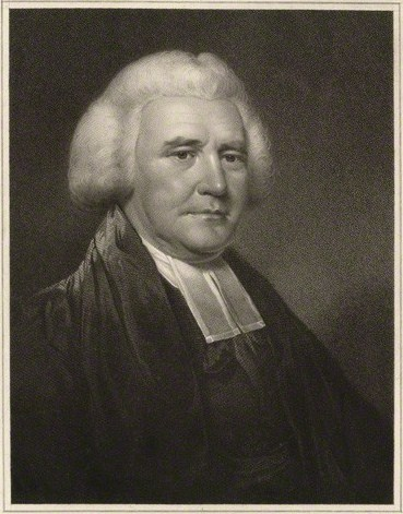 Portrait of Miles Atkinson (1741–1811), English clergyman.